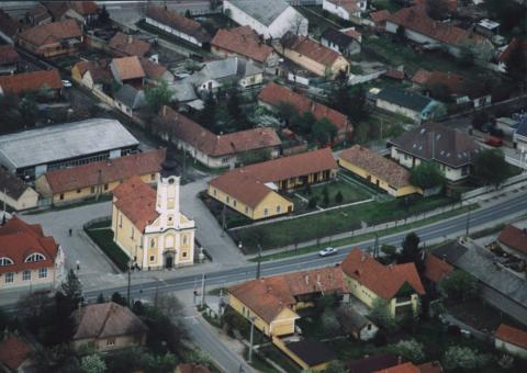 Alsónémedi, bird's view of the town and Roman Catholic Church.